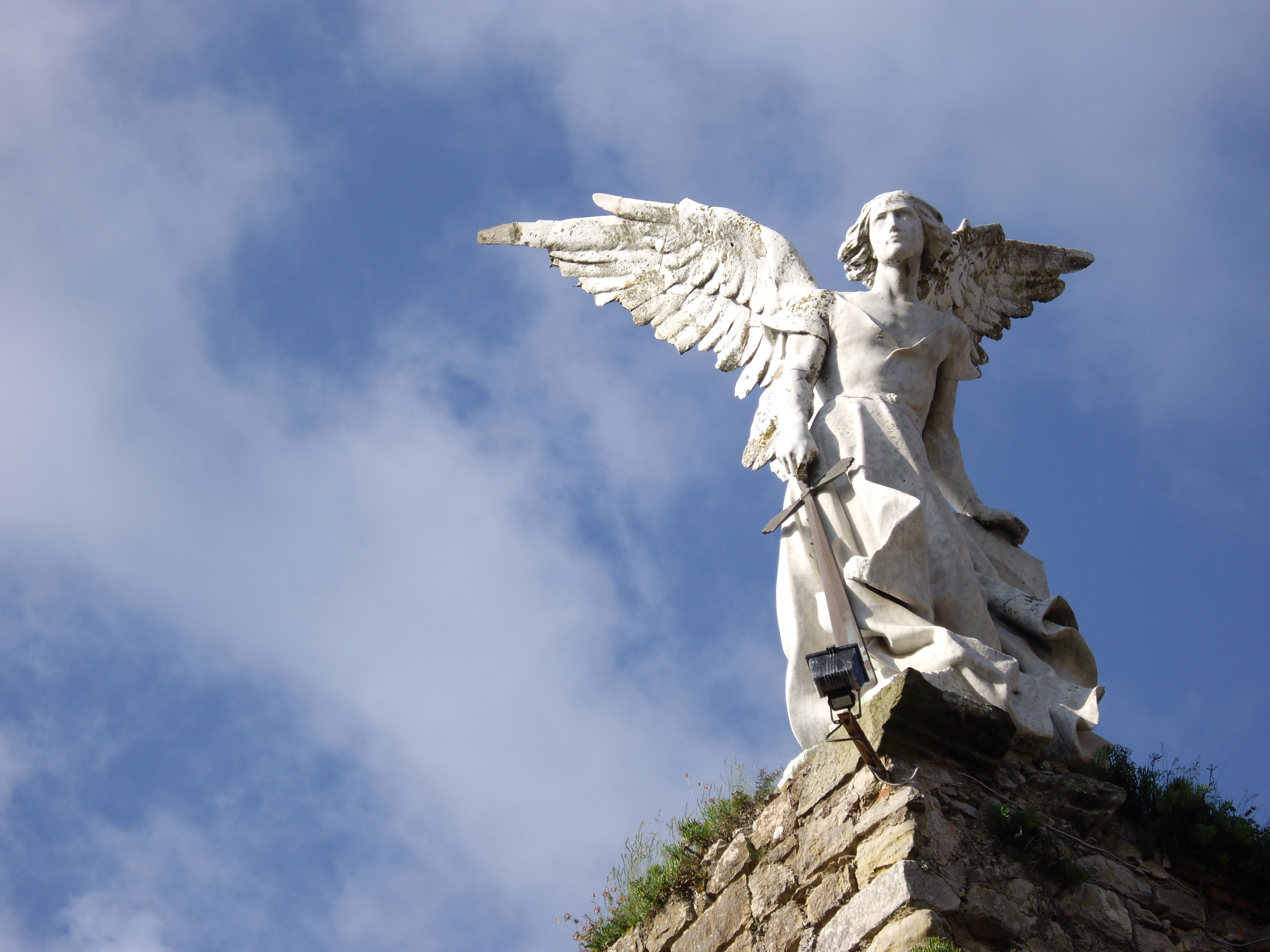 Guardian Angel, sculpture by Josep Llimona. Modernist style, around 1894-1895. It's erected over the walls of an old ruined Gothic church in Comillas (Cantabria, España).